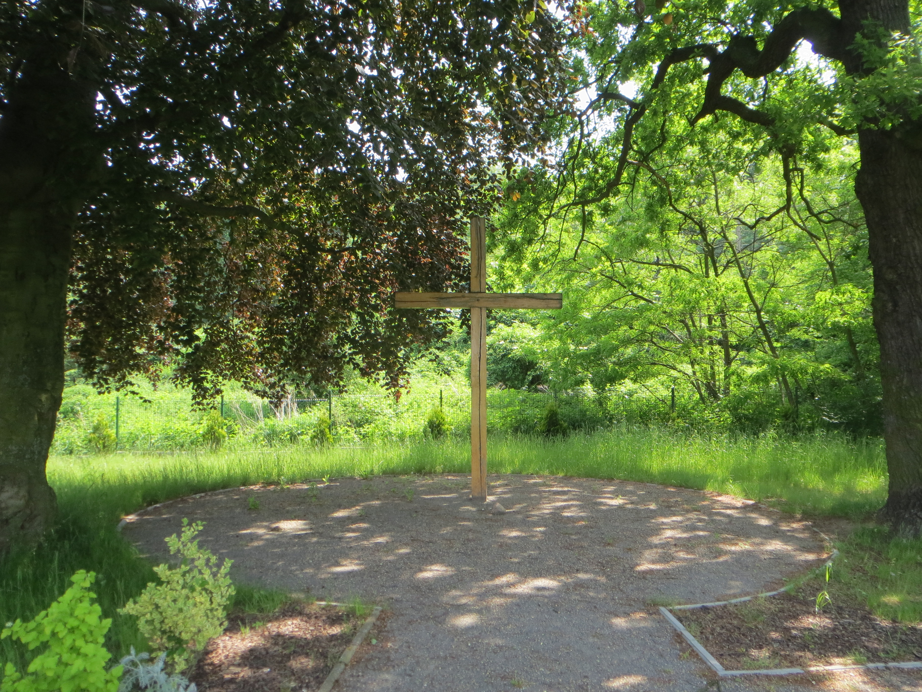 Dietrich Bonhoeffer garden of silence and meditation in Zdroje/Finkenwalde, site of Bonhoeffer's seminar 1935 to 1937